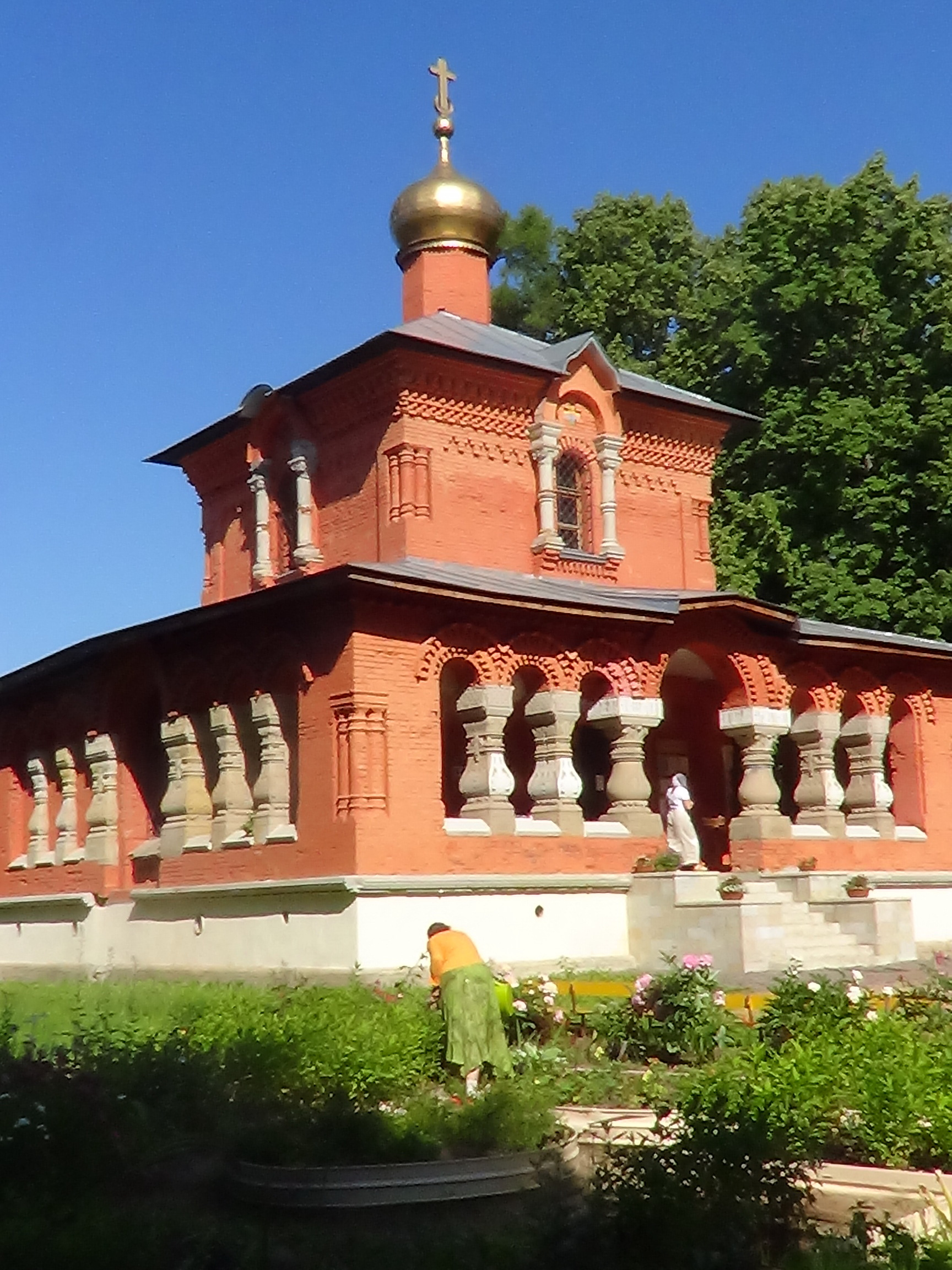 Saint Petersburg (Russia), Petergof.